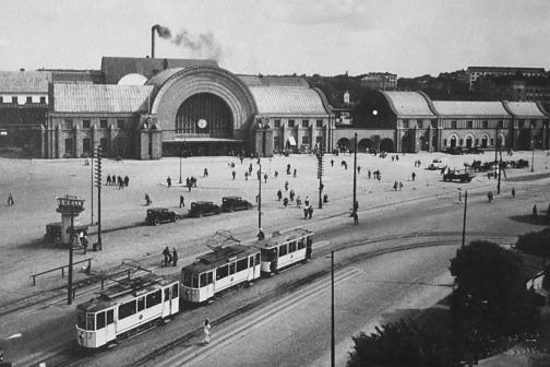 Vokzal'naya (Train station) Sq. in Vyborg (Asematori) at 1930's